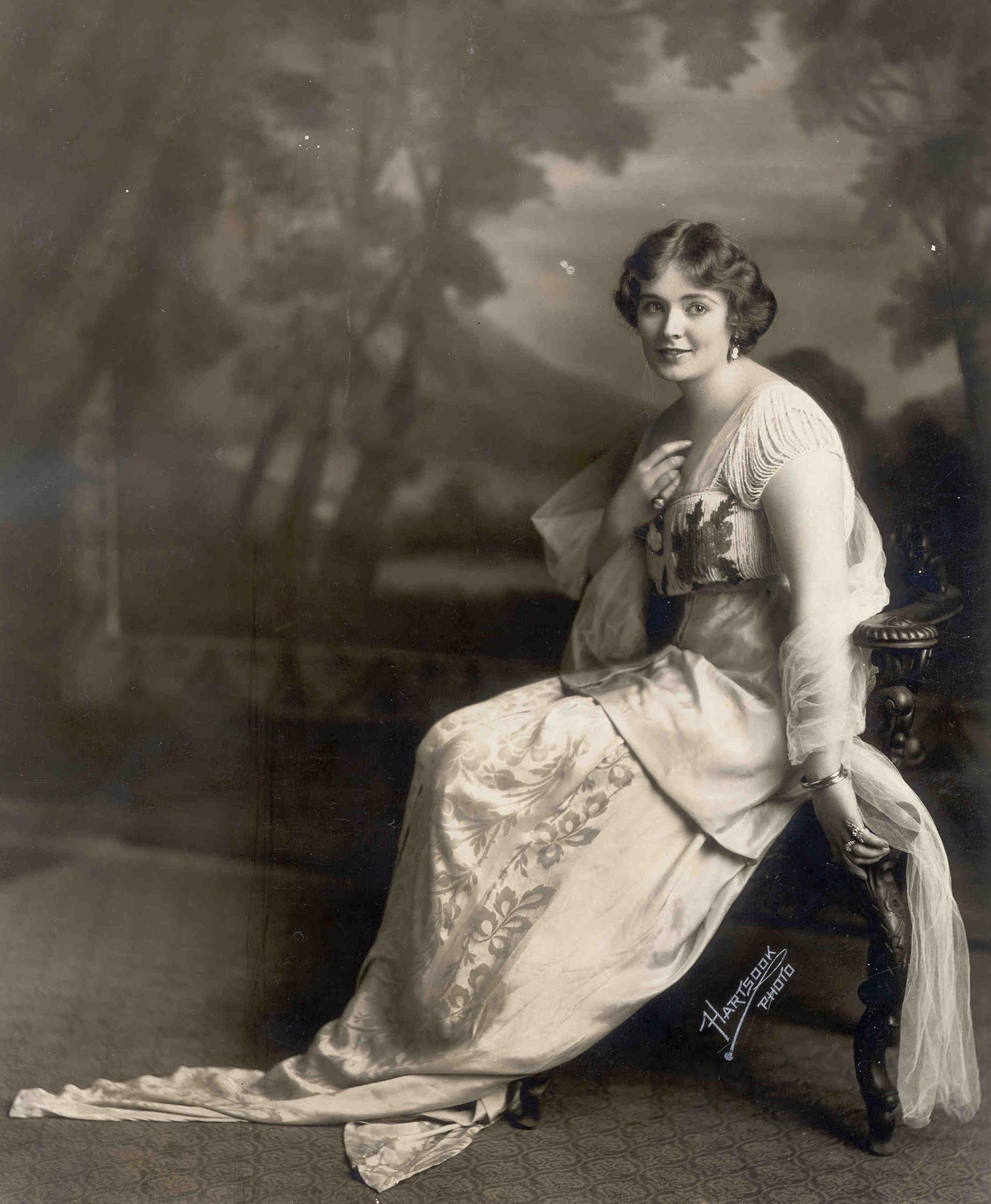 Marjorie Rambeau (1889-1970), American actress, in Israel Zangwill's play Merely Mary Ann